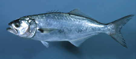 Bluefish (Pomatomus saltatrix)